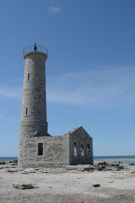 Gull Island Lighthouse, Mohawk Island